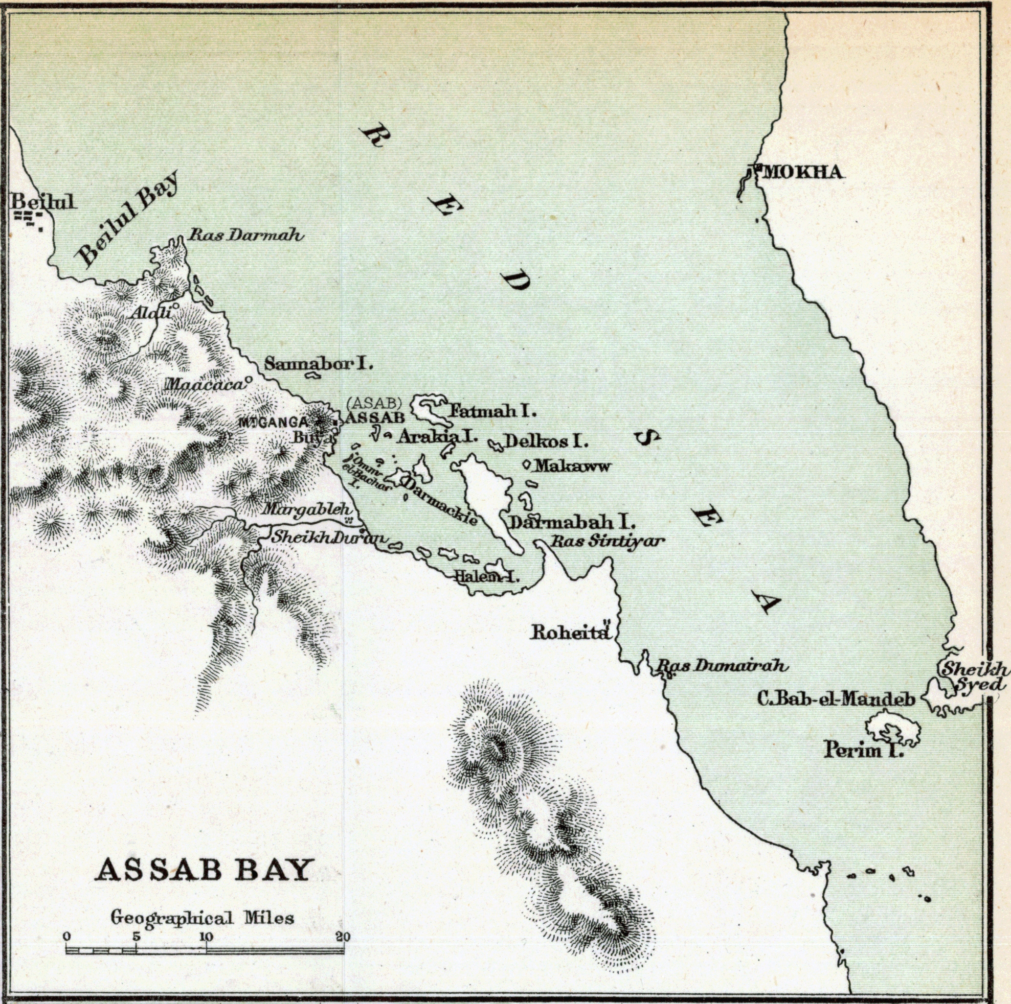 Ancillary map from "European territorial claims on the coasts of the Red Sea, 1885" Author: Sir William Rawson (1812-1899) Lithographer: Edward Weller (d. 1884) Publisher: Edward Stanford Ltd. Assab Bay [scale ca. 1:1,087,000] Depth shown by soundings. Sand bars, intertidal zones, and actual and proposed land and marine structures are shown.